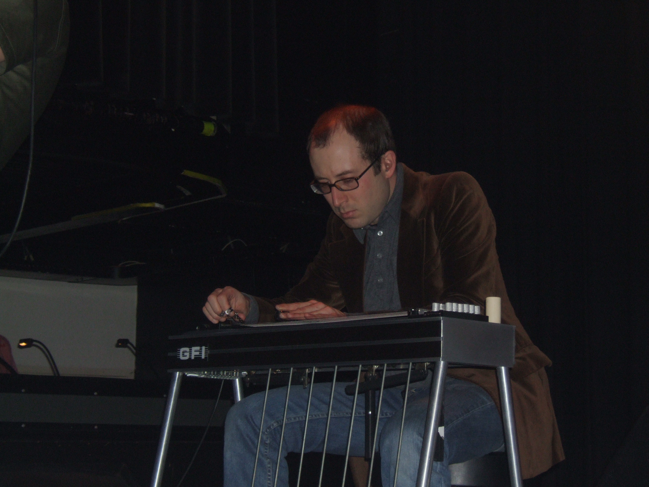 Taken by Leah Pritchard, 2007